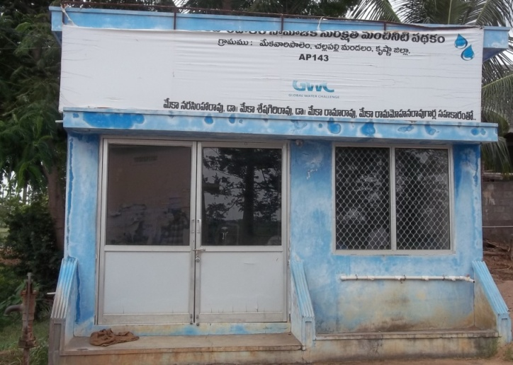 A safe drinking water plant built with the collaboration of Mr.Meka.Narasimha Rao, Meka.Seshagiri Rao, Meka.Rama Rao and Meka.Rammohan Rao in 2009